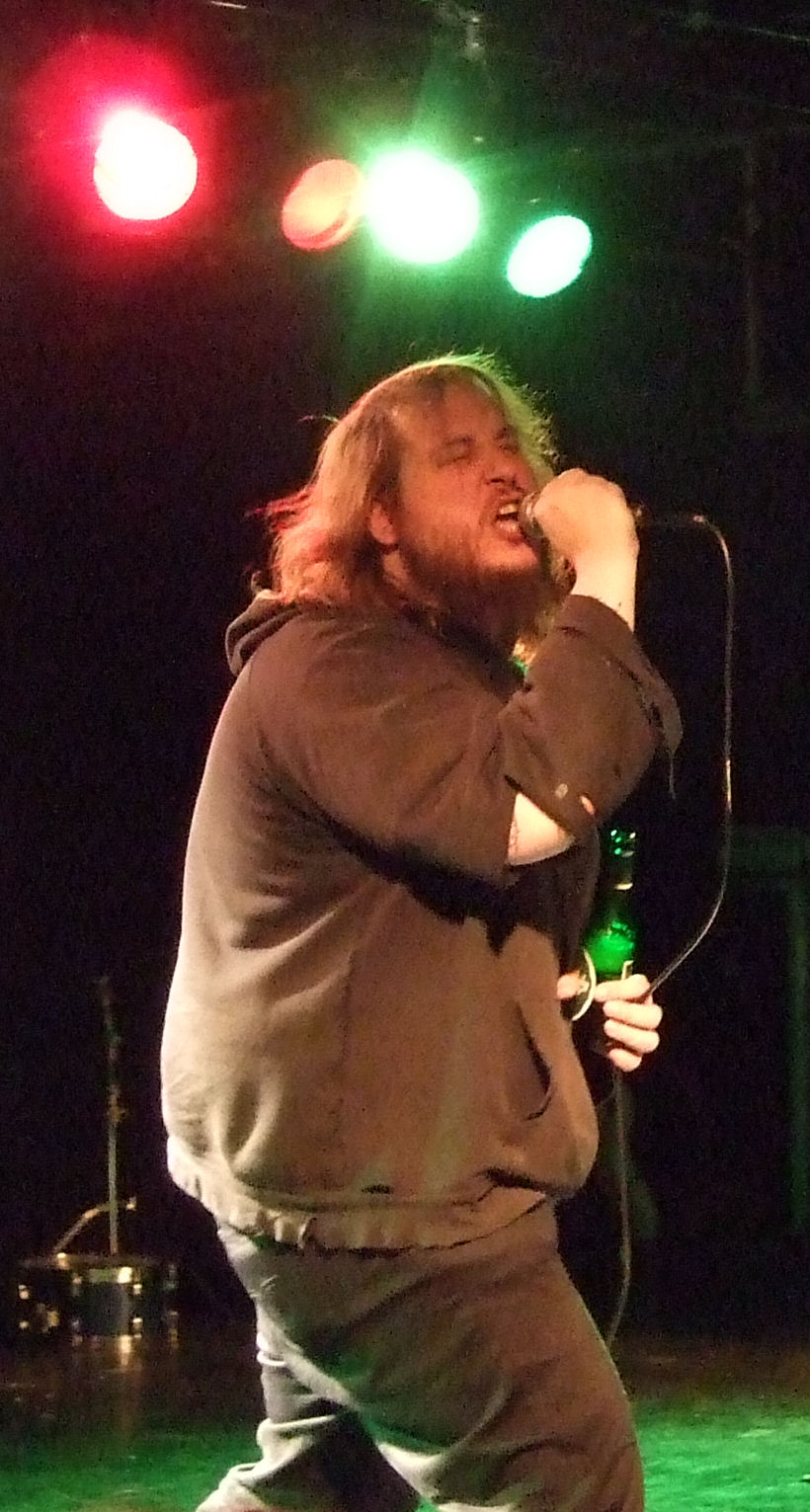 Mr Violence of Gehennah. Live at "South of Heaven", Betong in Oslo, Norway